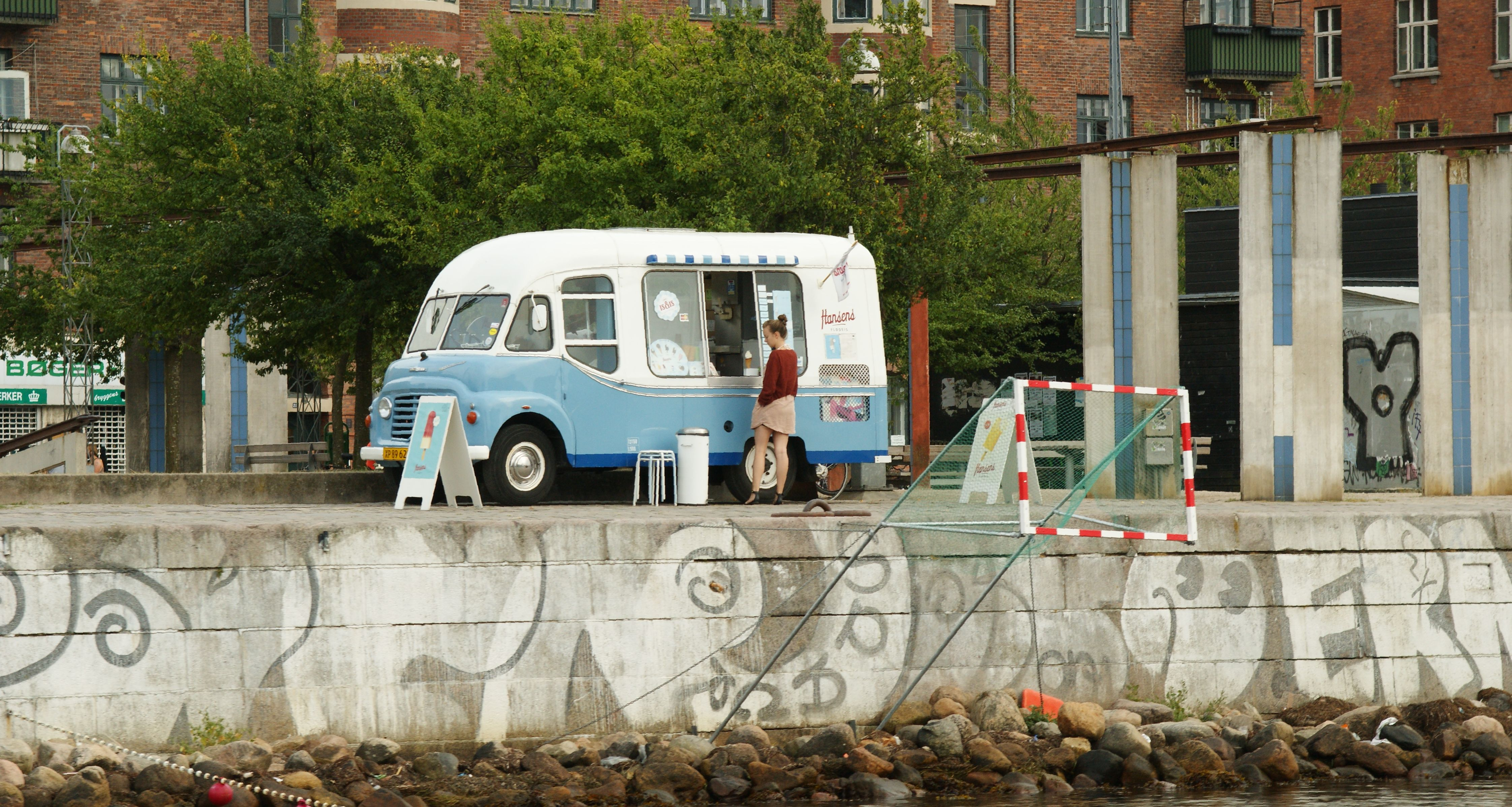 The ice cream van